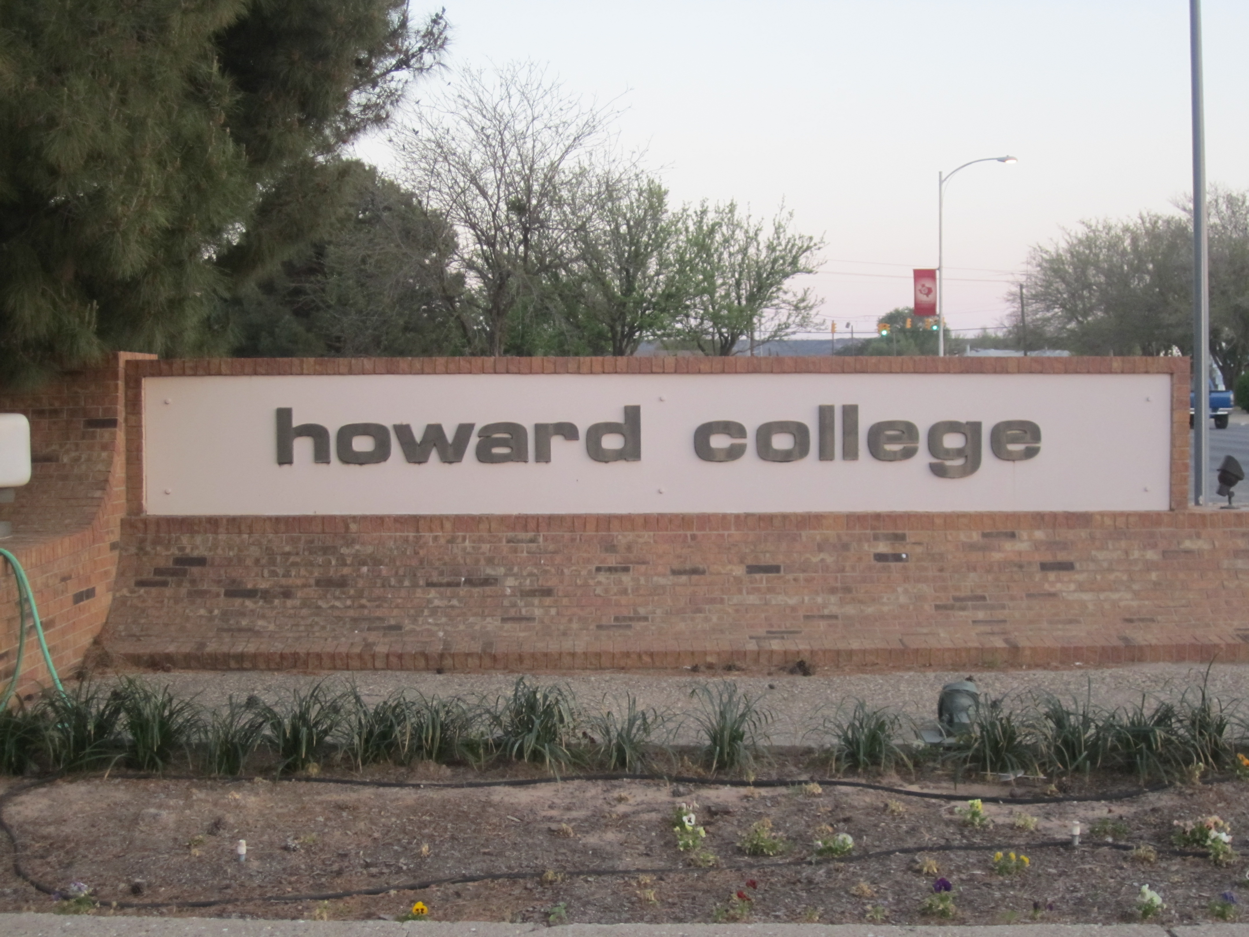 I took photo with Canon camera in Big Spring, TX.